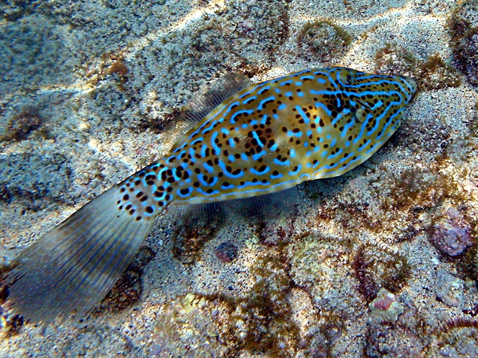 Colorful Scribbled filefish, Aluterus Scriptus in Kona, Hawaii